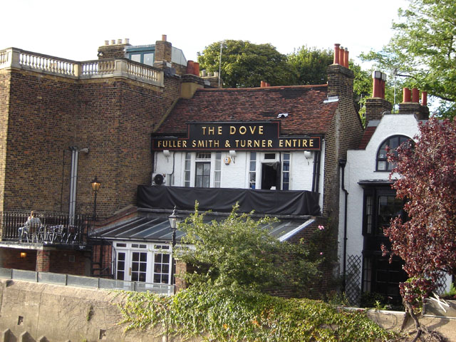 The Dove pub, Hammersmith, London, from the river jetty. 28 September 2005. Photographer: Fin Fahey